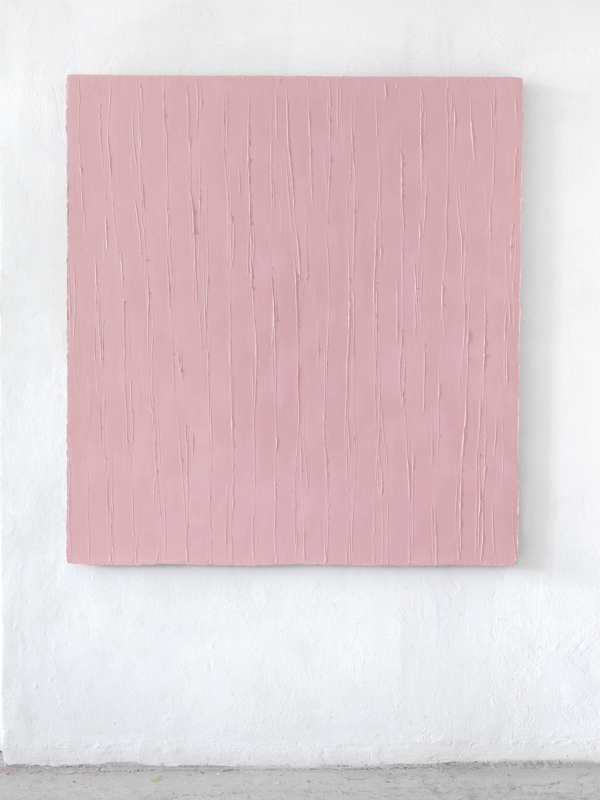 Work of the artist Christiane Conrad, Title: Ins Freie, 2014